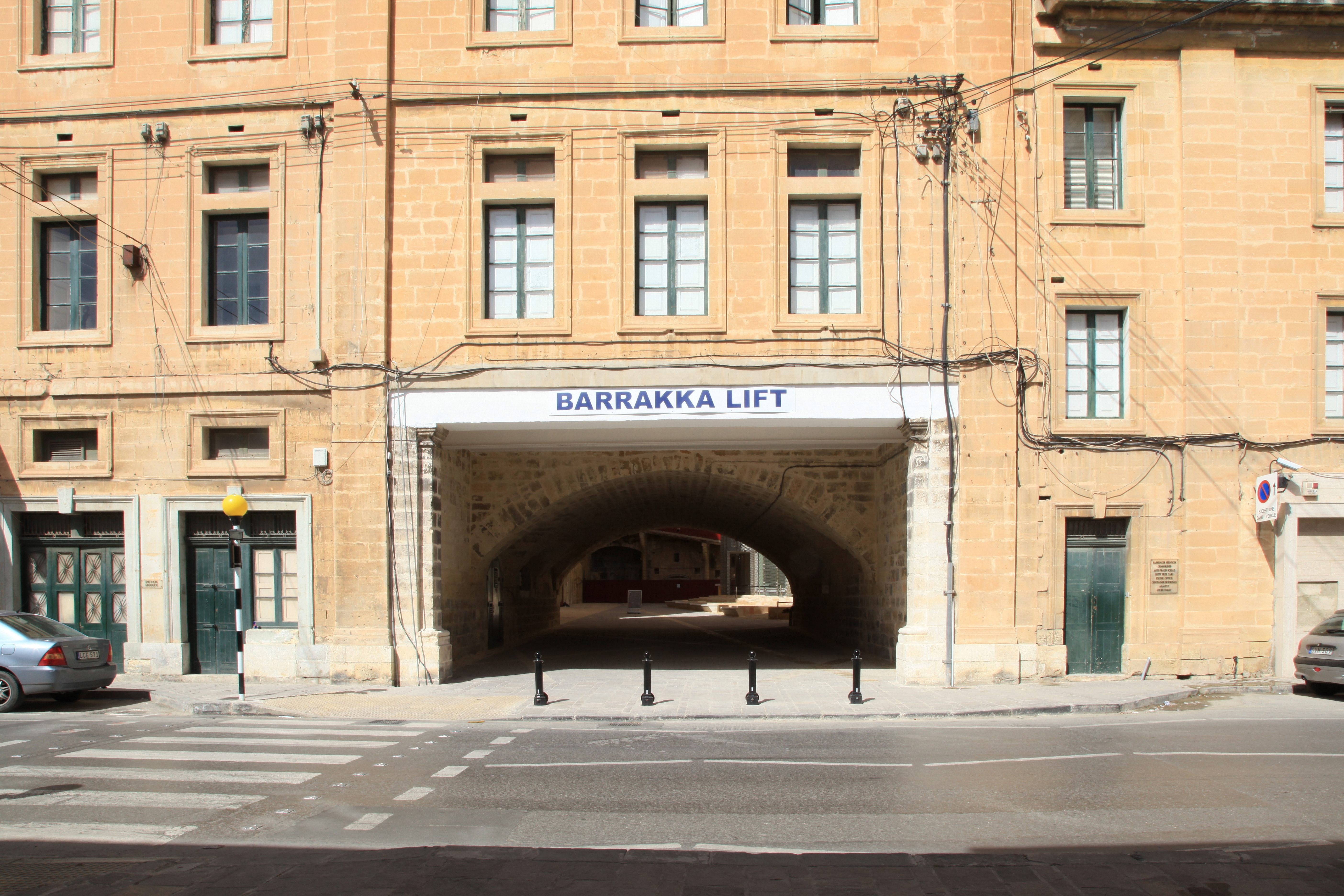 Upper Barrakka Lift tunnel, entrance from Xatt Lascaris through the Valletta Ditch to the lift, Xatt Lascaris in Valletta, Malta